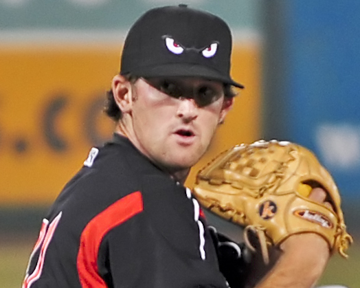 Colt Hynes in 2009.